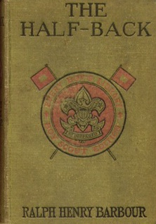 Picture of "The Half Back" - Boy Scouts of America Every Boy's Library edition, by Ralph Henry Barbour.